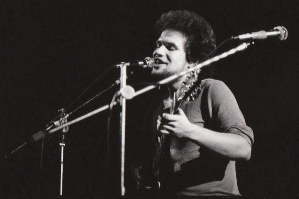 Petr Váša - writer, musician, performer and artist. Vokalíza, Lucerna Hall, Prague 24 September 1987